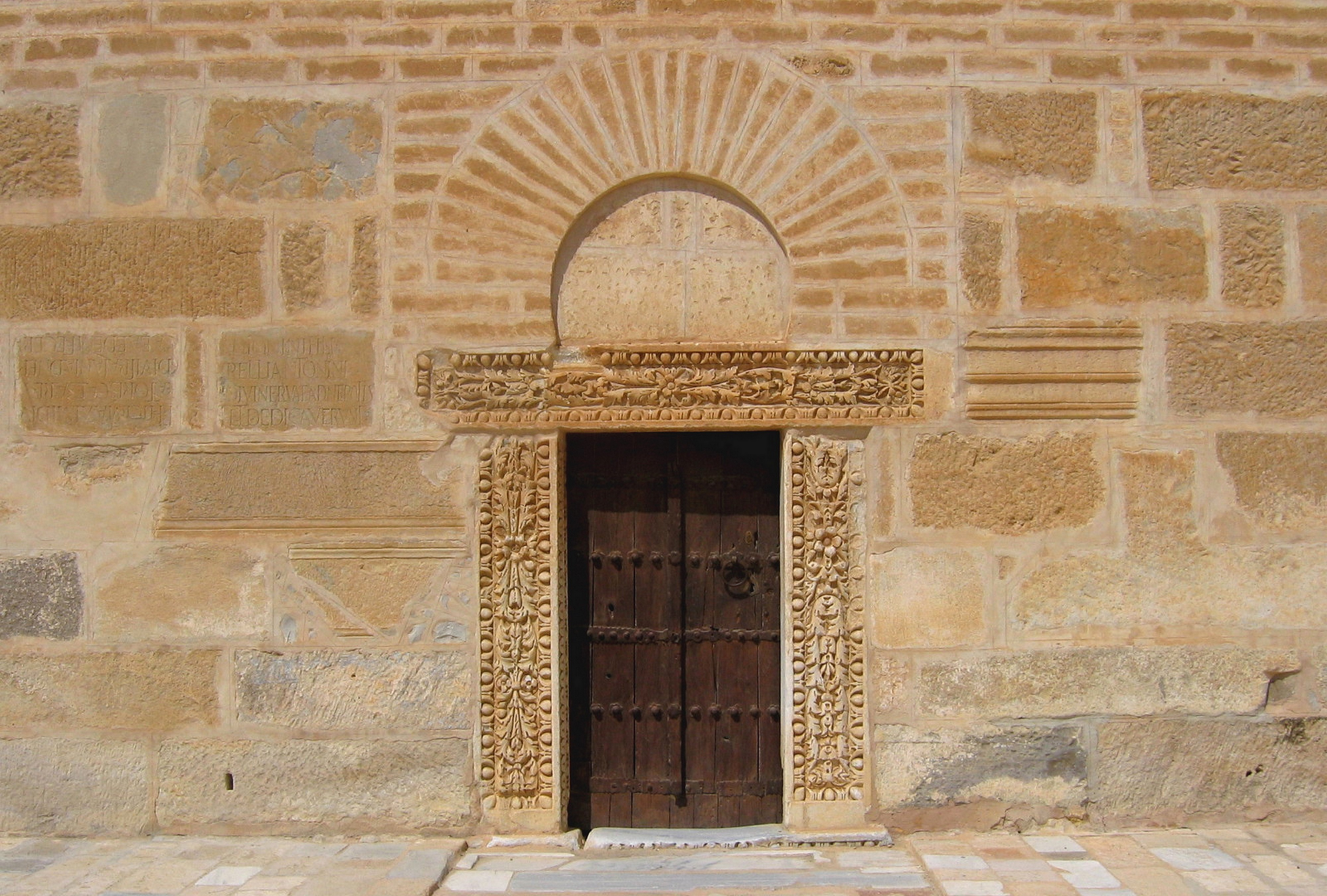 Door of the minaret in the Great Mosque of Kairouan, in Tunisia